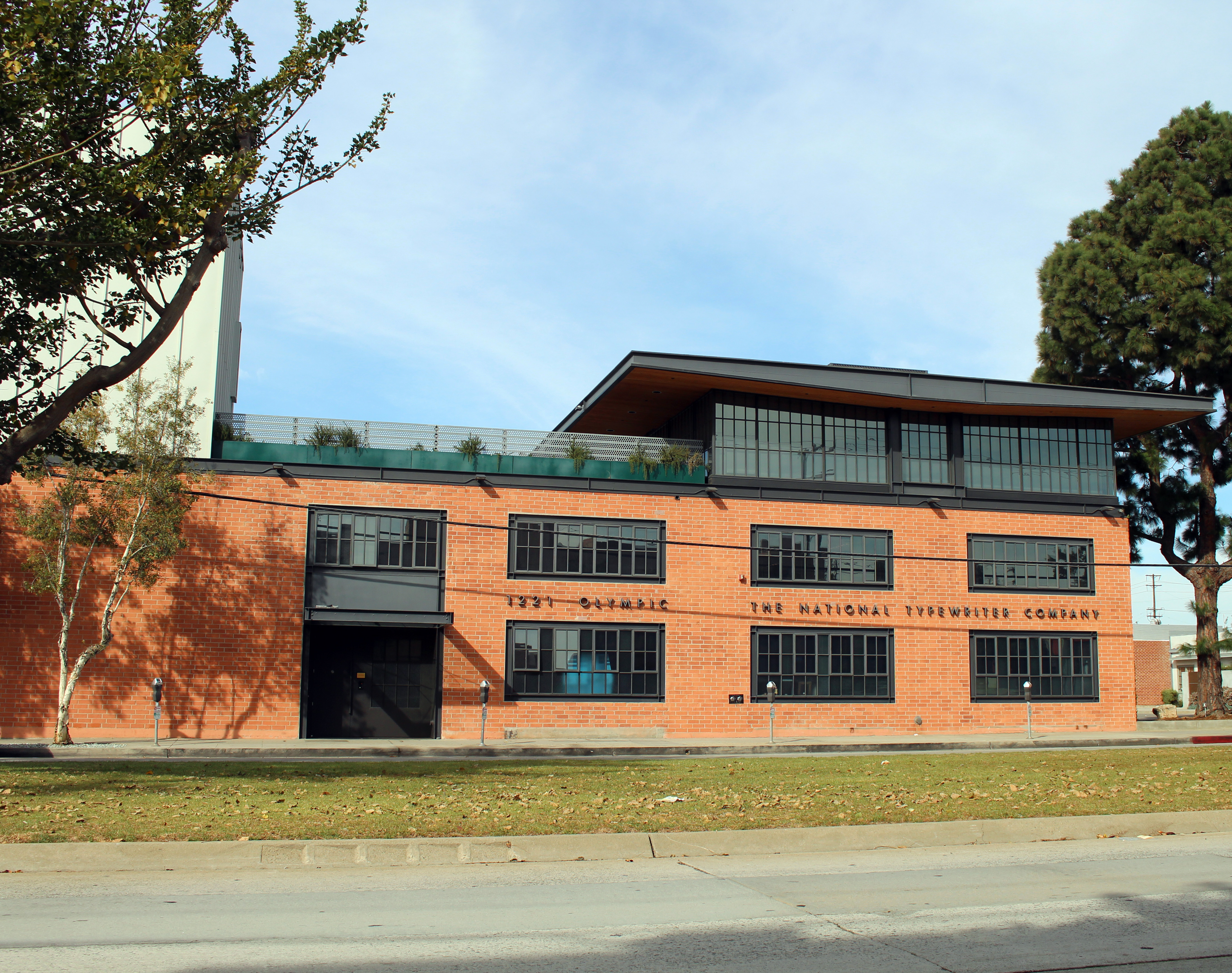 The headquarters of Bad Robot Productions at 1221 Olympic Boulevard, Santa Monica, California. Photographed by user Coolcaesar on December 6, 2015.